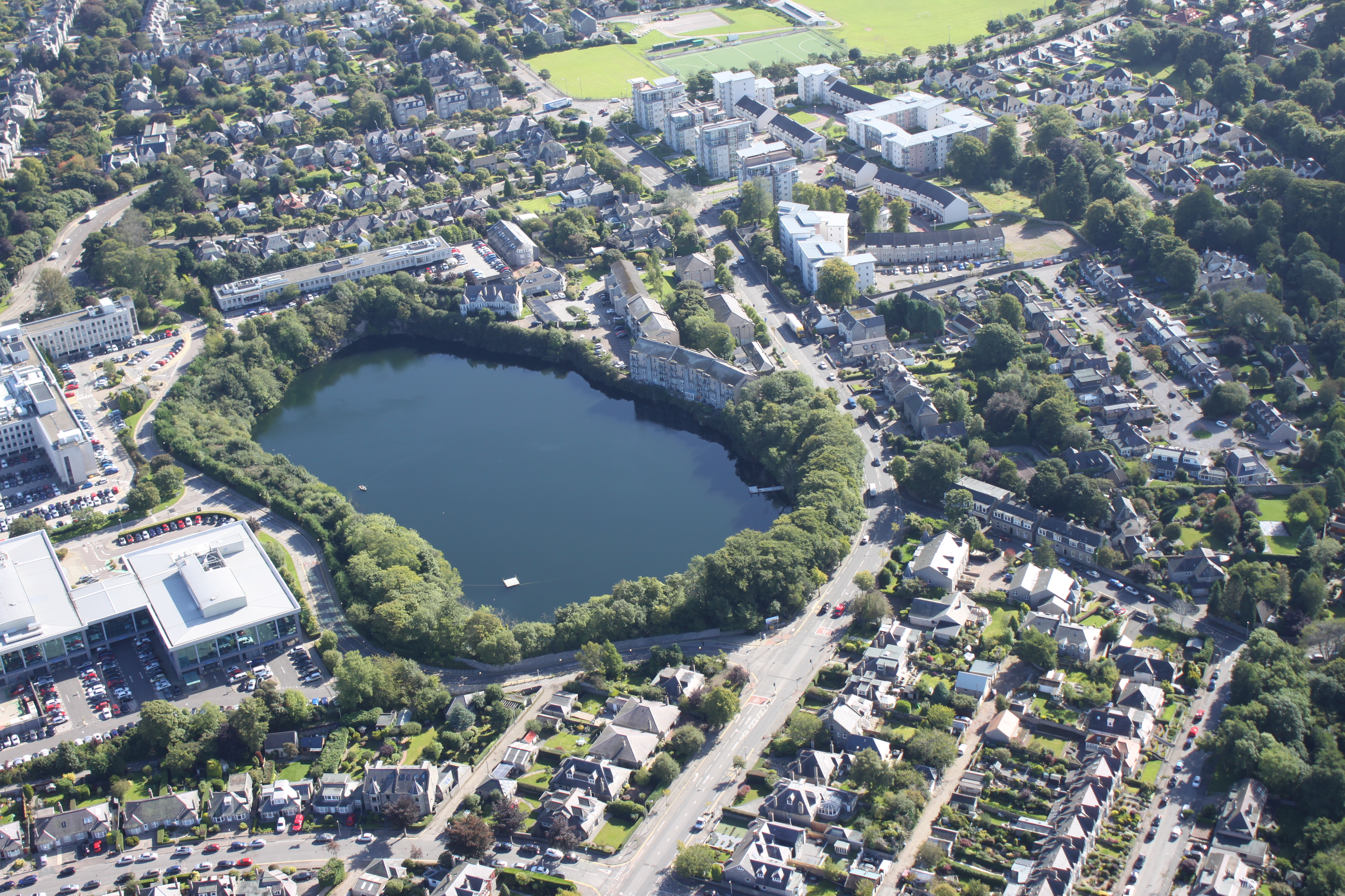 Rubislaw Quarry taken from an HJS helicopter